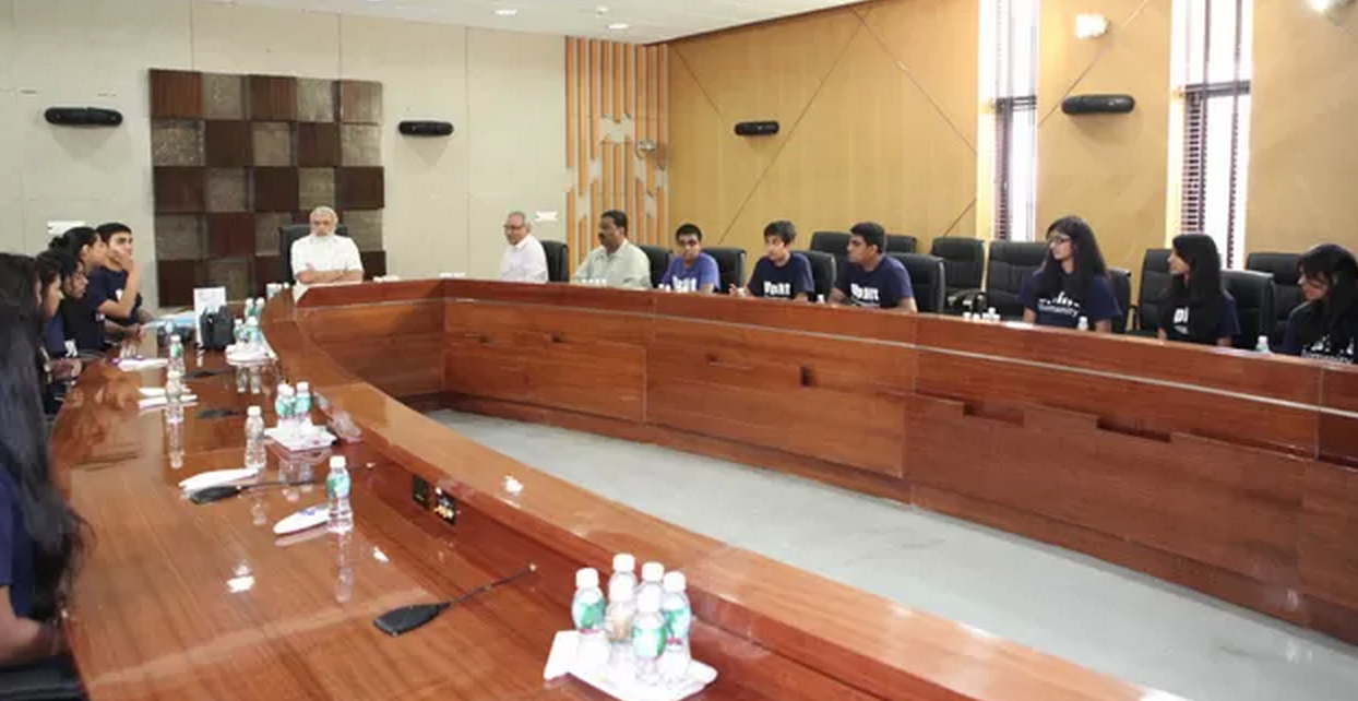 Uplift students meeting with Chief Minister of Gujarat Narendra Modi